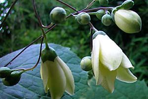 Kirengeshoma palmata Eget foto 26 augusti 2005 kl.10.52 IngoBingo 300x200 (48 356 bytes) (Eget foto)